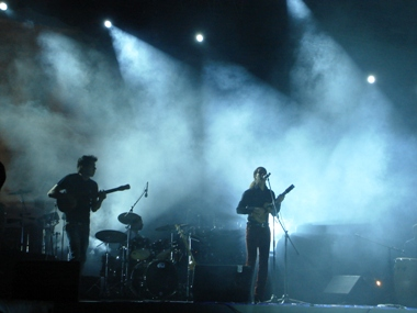 Sonex live